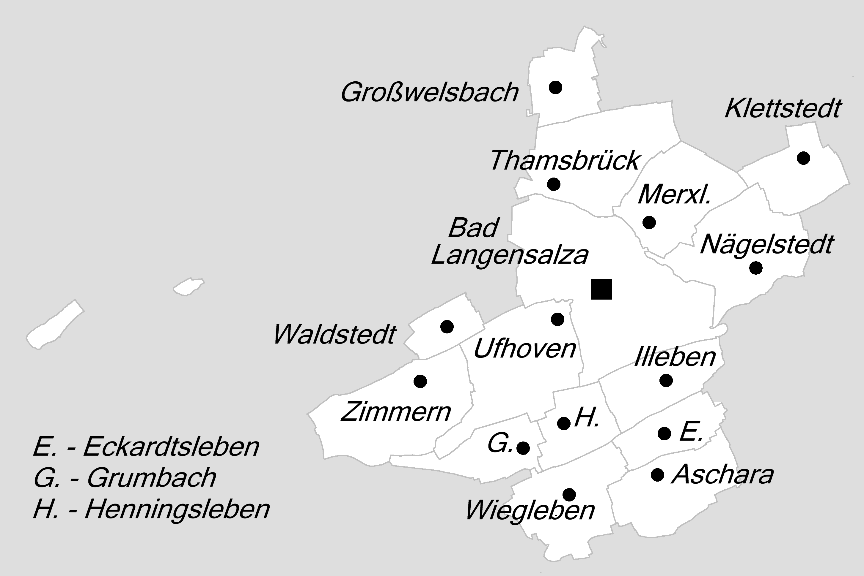 District-Map of Bad Langensalza, general overview.